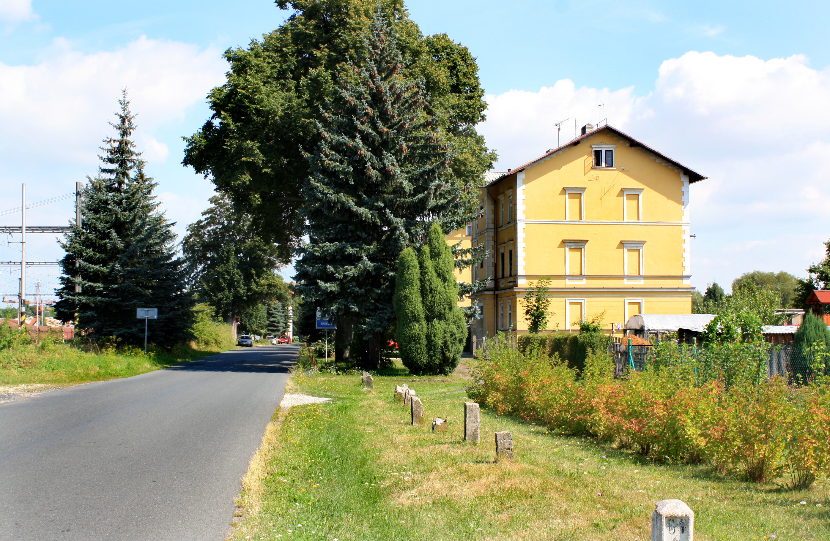 South view of Tršnice, part of Cheb, Czech Republic